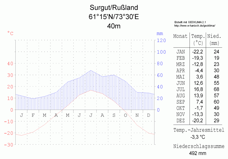 climate chart in the format by Walther and Lieth, metric, °Celsisus and millimeters, made with Geoklima 2.1